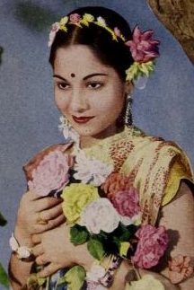 Cropped re-sized film still of Gorakh Aya (1938) from cine-mag Filmindia May 1938